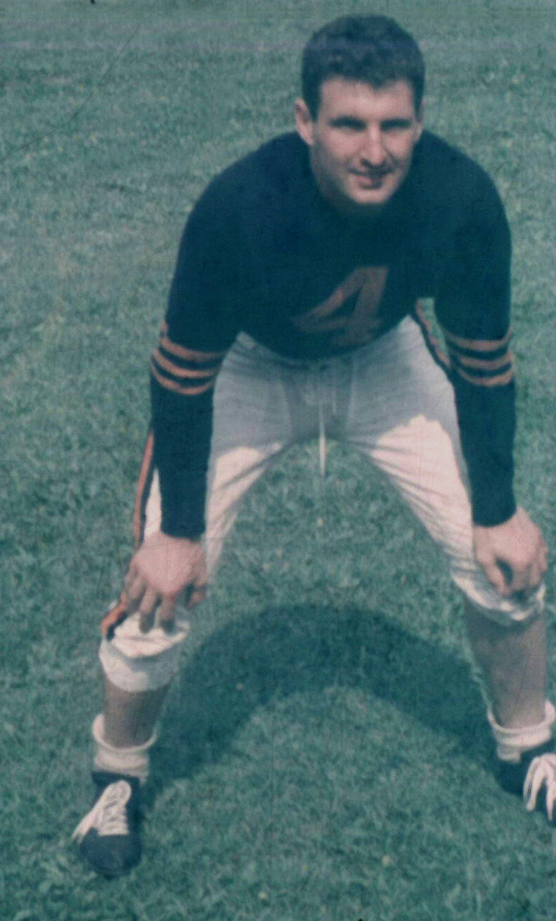 Raymond R Schumacher at Bears team practice, probably Wrigley Field, but possibly in Akron Ohio camp